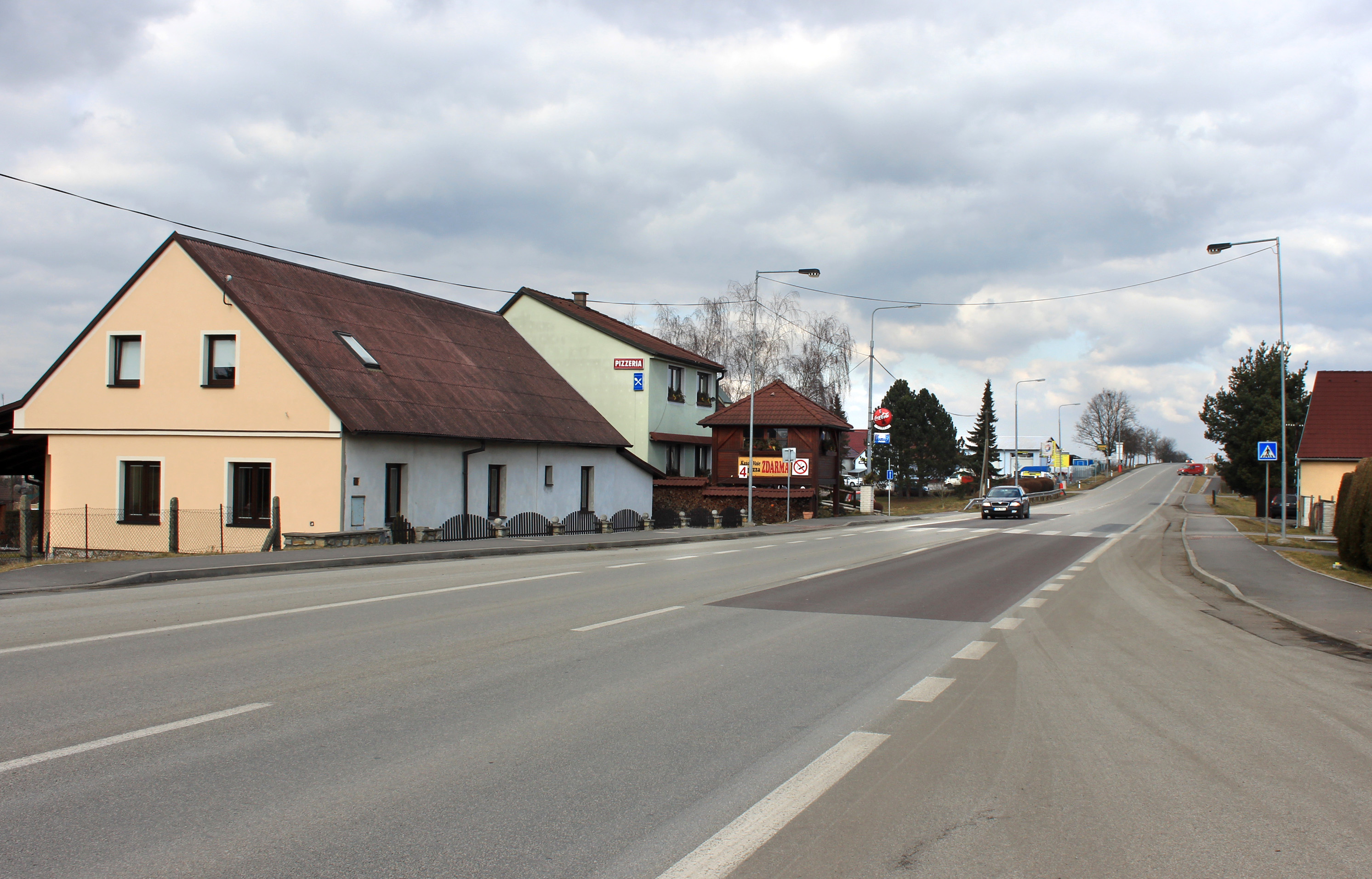 Road No. 603 in Klenovice village, Czech Republic.